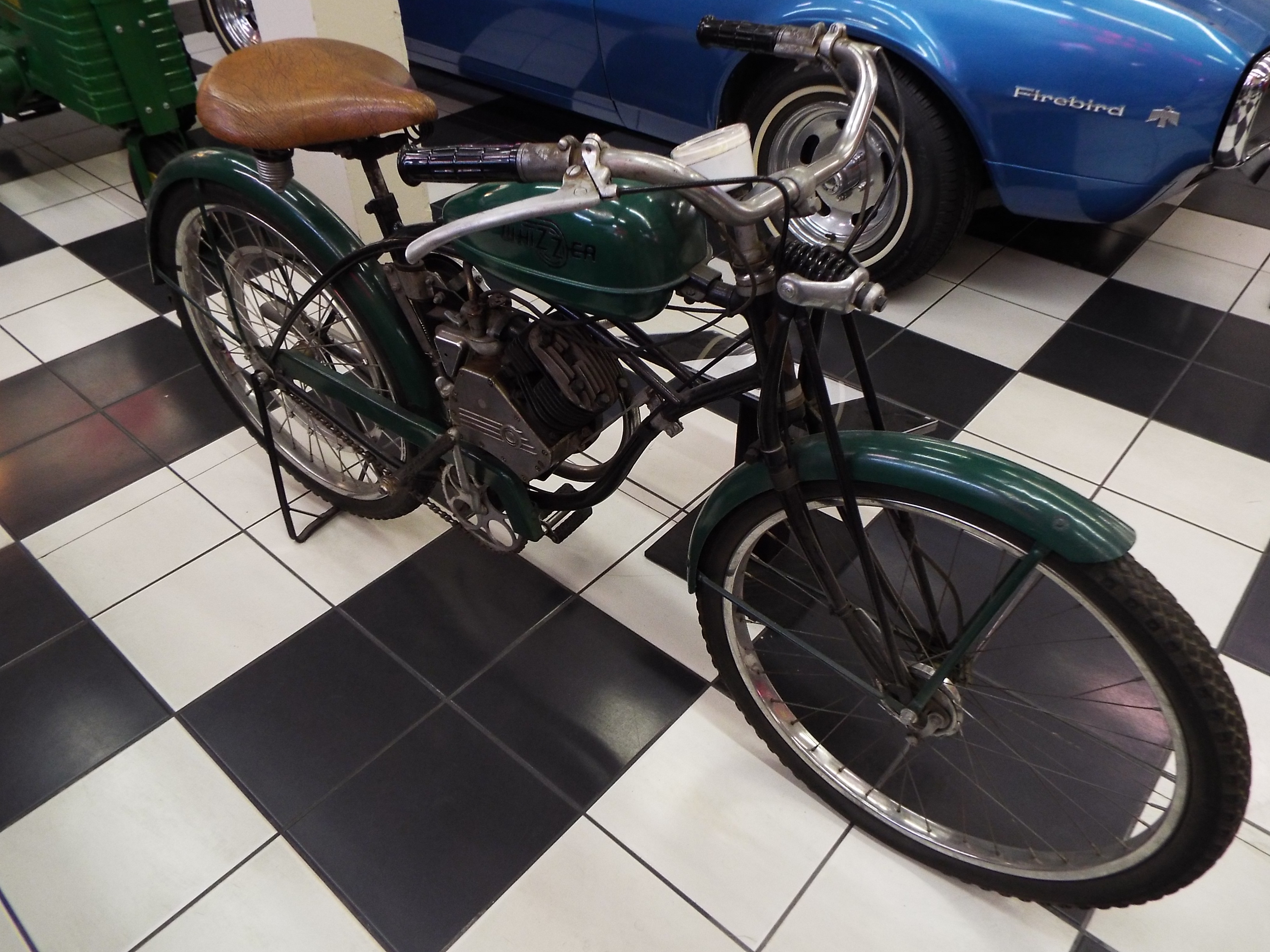 Martin Auto Museum-1948 American Flyer Whizzer Powered Motor Bike